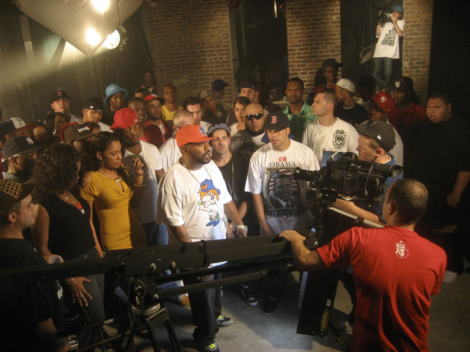 "How We Rock" video shoot